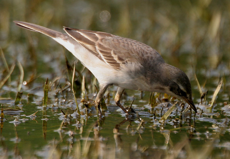 Citrine Wagtail Motacilla citreola in Kolkata, West Bengal, India.